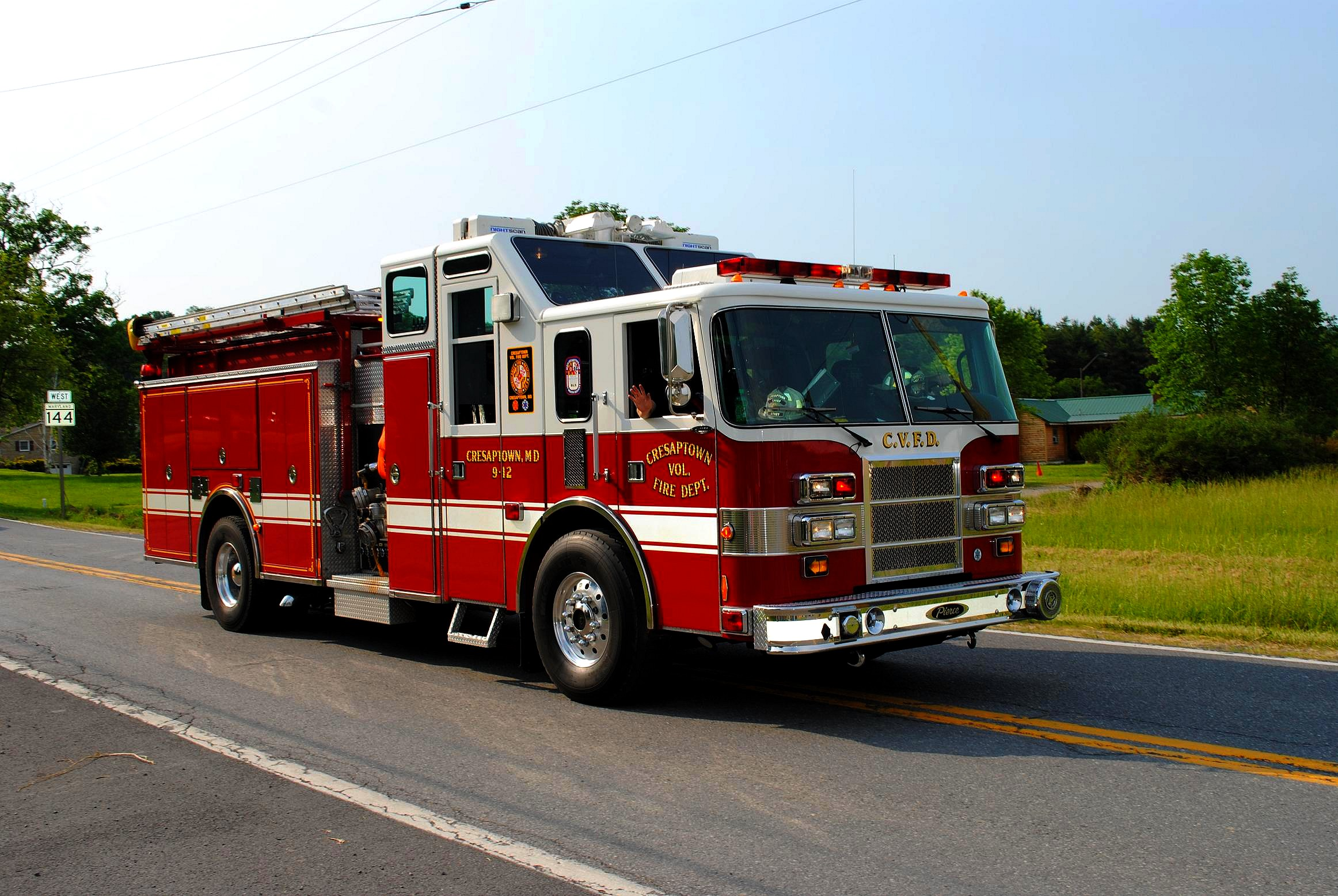 Cresaptown Fire Engine